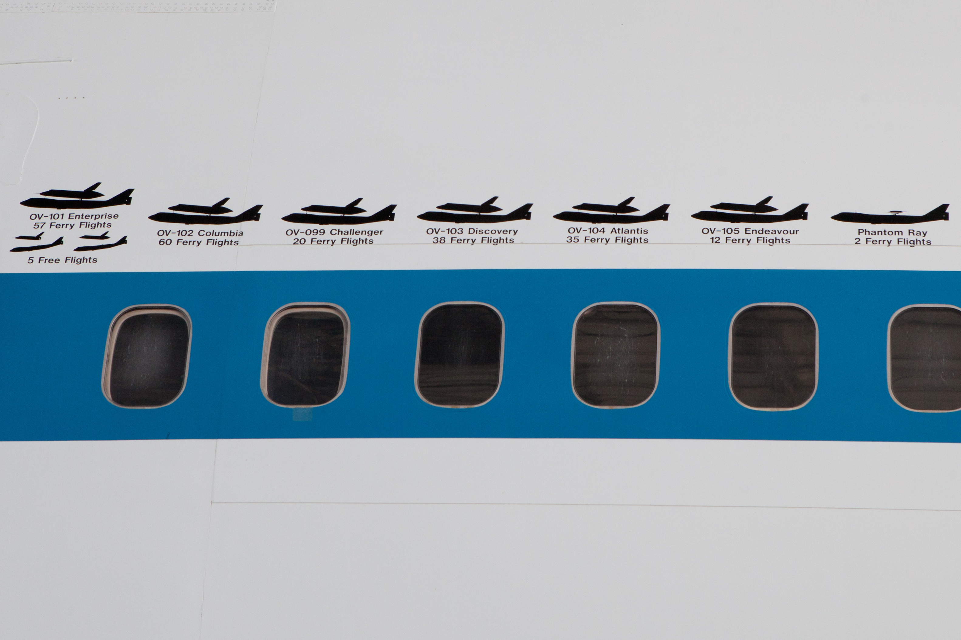 Stencils on the side of the Shuttle Carrier Aircraft after its last ferry flight of Space Shuttle Enterprise to JFK airport from IAD. At this time it listed: OV-101 Enterprise: 57 Ferry flights, 5 free flights OV-102 Columbia: 60 Ferry flights OV-099 Challenger: 20 Ferry flights OV-103 Discovery: 38 Ferry flights OV-104 Atlantis: 35 Ferry flights OV-105 Endeavour: 12 Ferry flights Phantom Ray: 2 Ferry flights